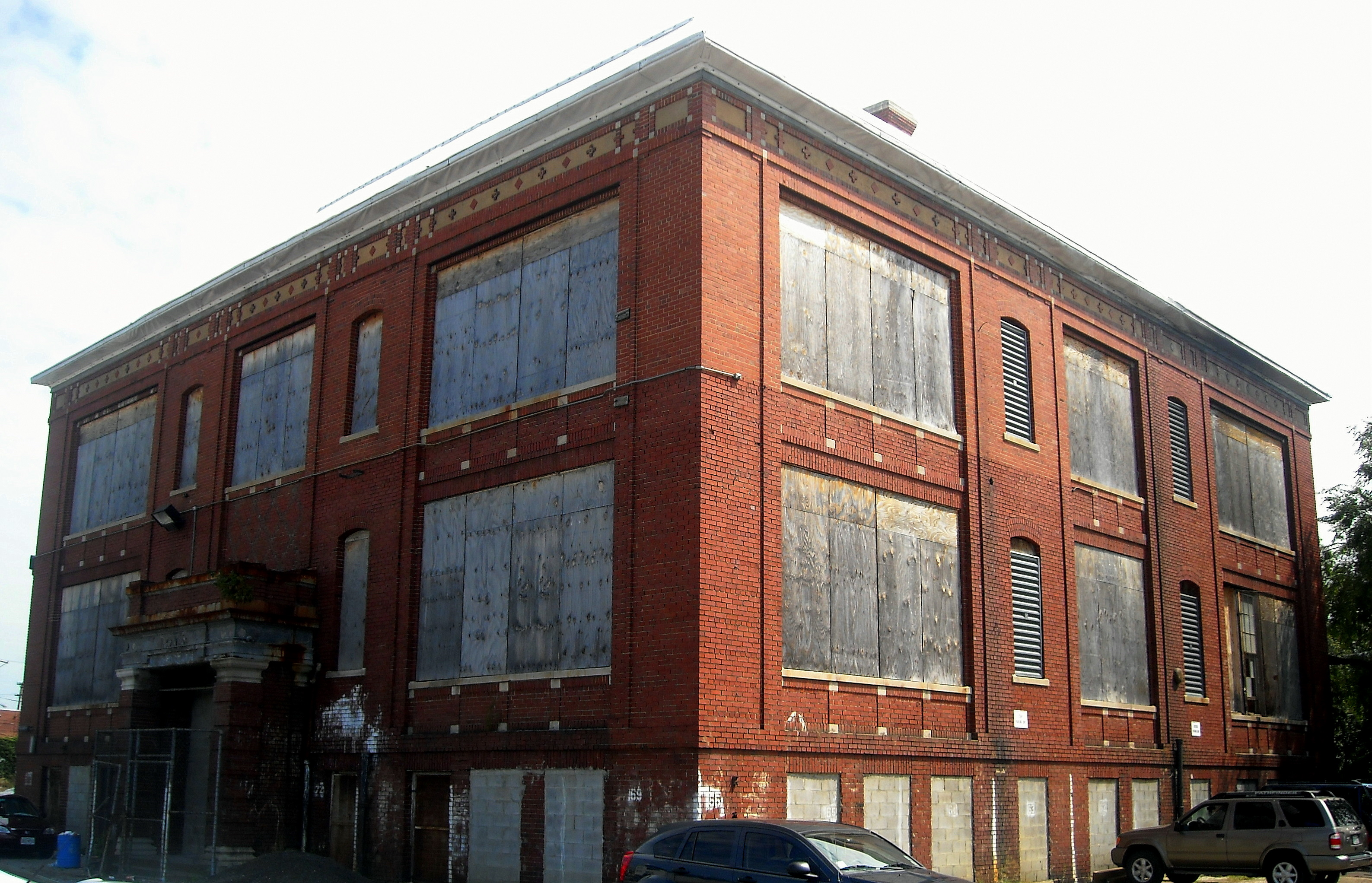 The old Alexander Crummell School located at Kendall and Gallaudet Streets, NE in the Ivy City neighborhood of Washington, D.C. Designed by Snowden Ashford in 1910, the Elizabethan Revival building is listed on the National Register of Historic Places.